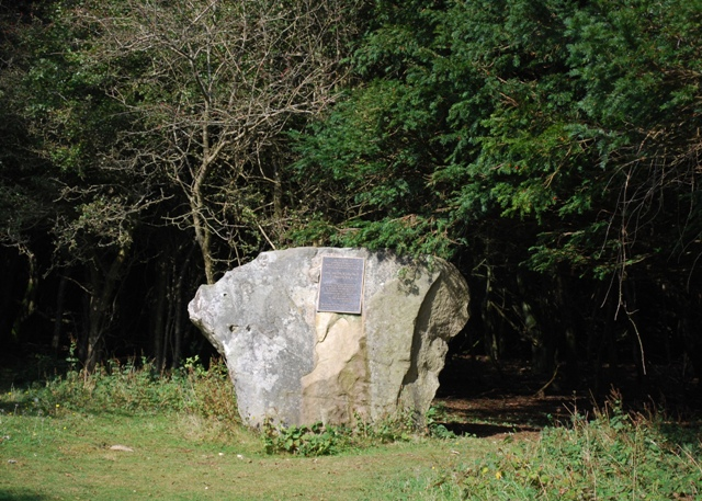 The Tansley Stone, Kingley Vale Kingley Vale is a Site of Special Scientific Interest and National Nature Reserve, renowned for its groves of yew trees and the species rich scrub and chalk grassland in between. Taken on the top of the Reserve this stone commemorates Sir Arthur Tansley.